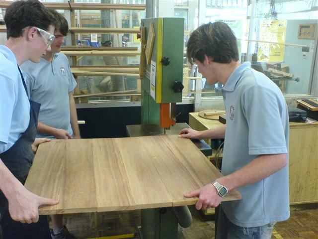 Bandsaw being operated